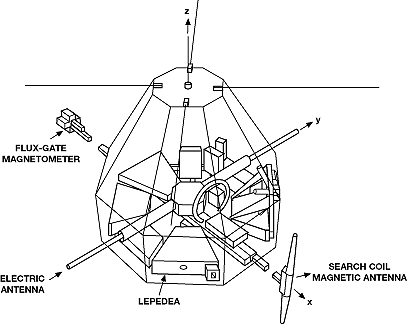 Inside view of Explorer 52, IE D, Injun F, Neutral Point Explorer, 07325